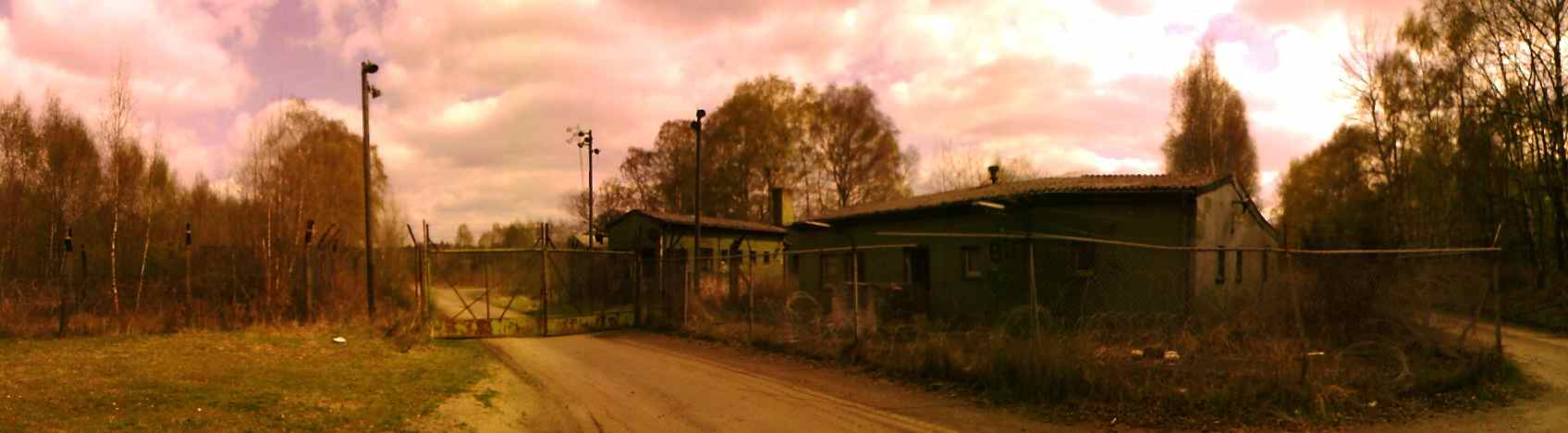 Wahner Heide, former belgian weapon depot